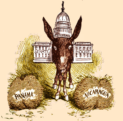 American political cartoon, circa 1900, on the debate over whether to build a canal through Panama or Nicaragua. The deliberations of Congress (choosing between a Panama canal route or a Nicaragua canal route, with allusion to Buridan's ass).